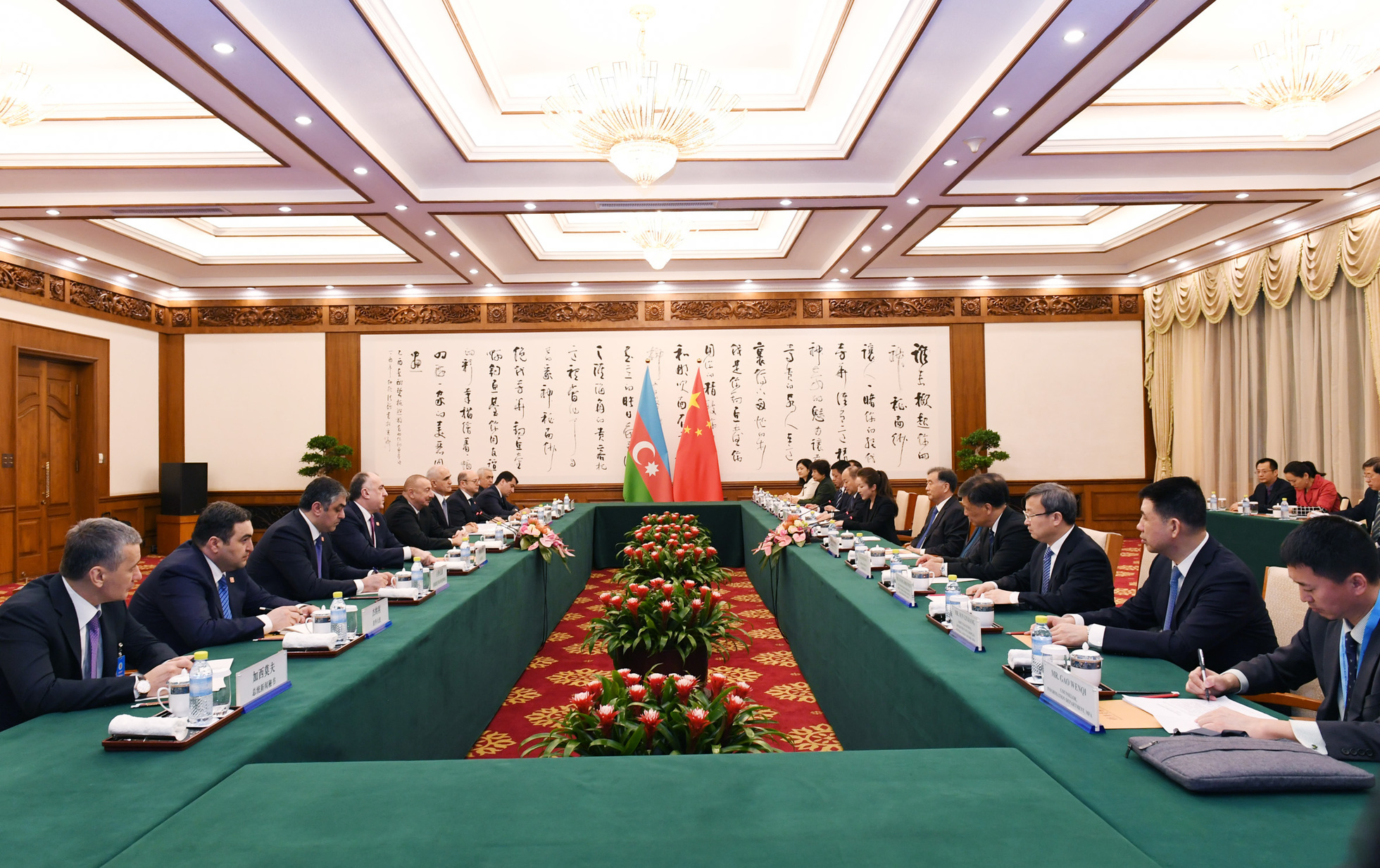 Ilham Aliyev met with member of Political Bureau of Communist Party of China Central Committee Wang Yang in Beijing